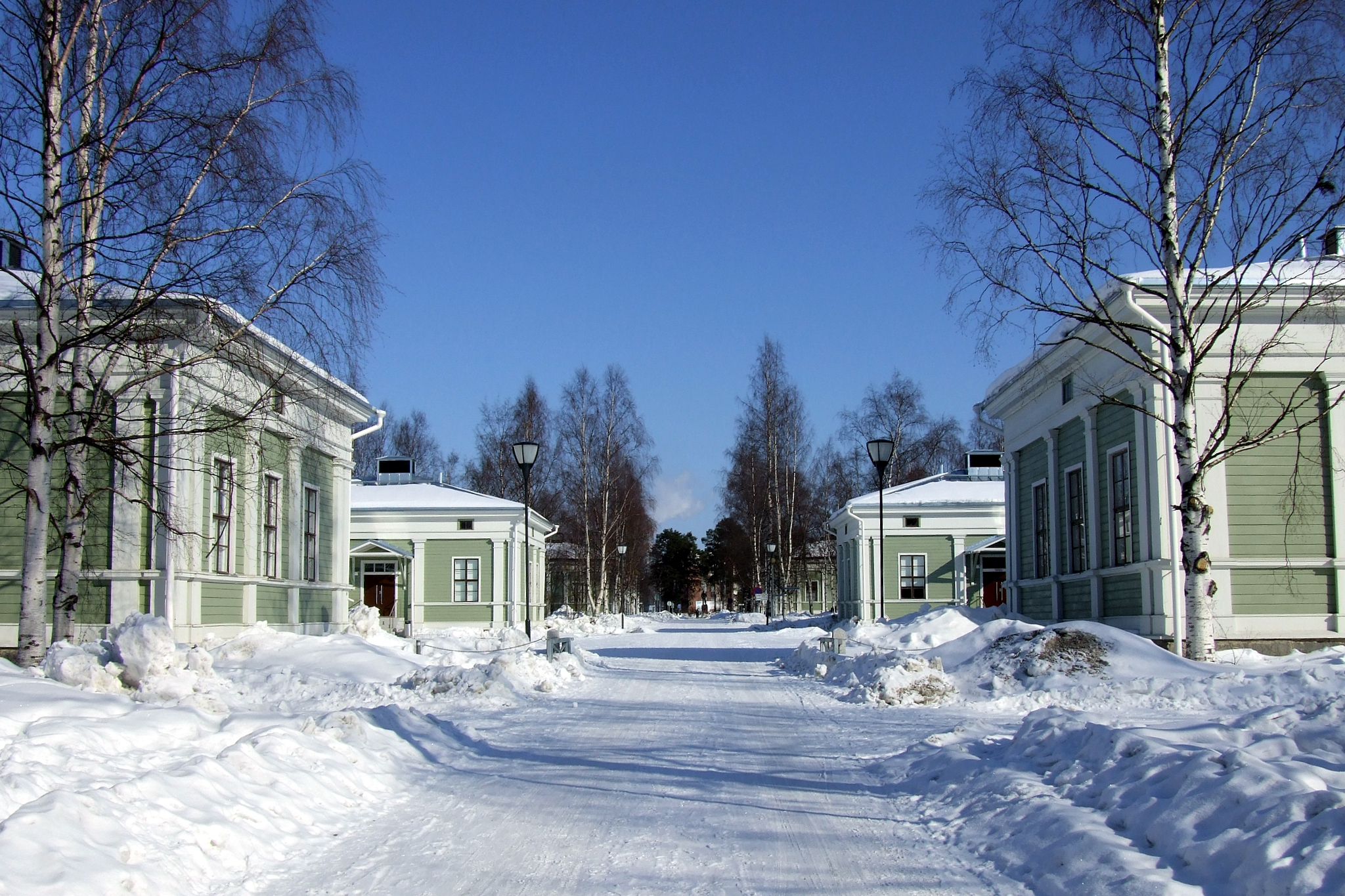 The old barracks area in Oulu, Finland. The area has been built using the standard drawings made by architect August Boman. The first wooden barracks were built in 1880. The military has moved to other locations and the old barracks are now used by the Merikoski Adult Training center.